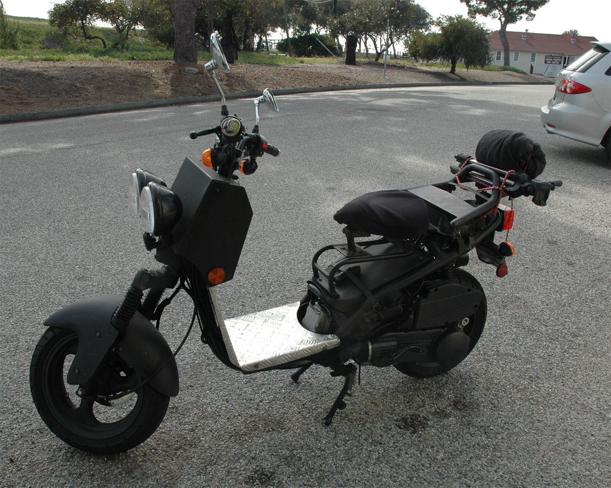 One of the photographers that rents space from us at Angels gate cruised up in this tasty little scooter. It comes stock like this, flat black, an off the shelf rat bike for the low speed Mad Max crowd. Aesthetically, it's right up there with monowheels and Akira inspired recumbrant bikes, IMHO.